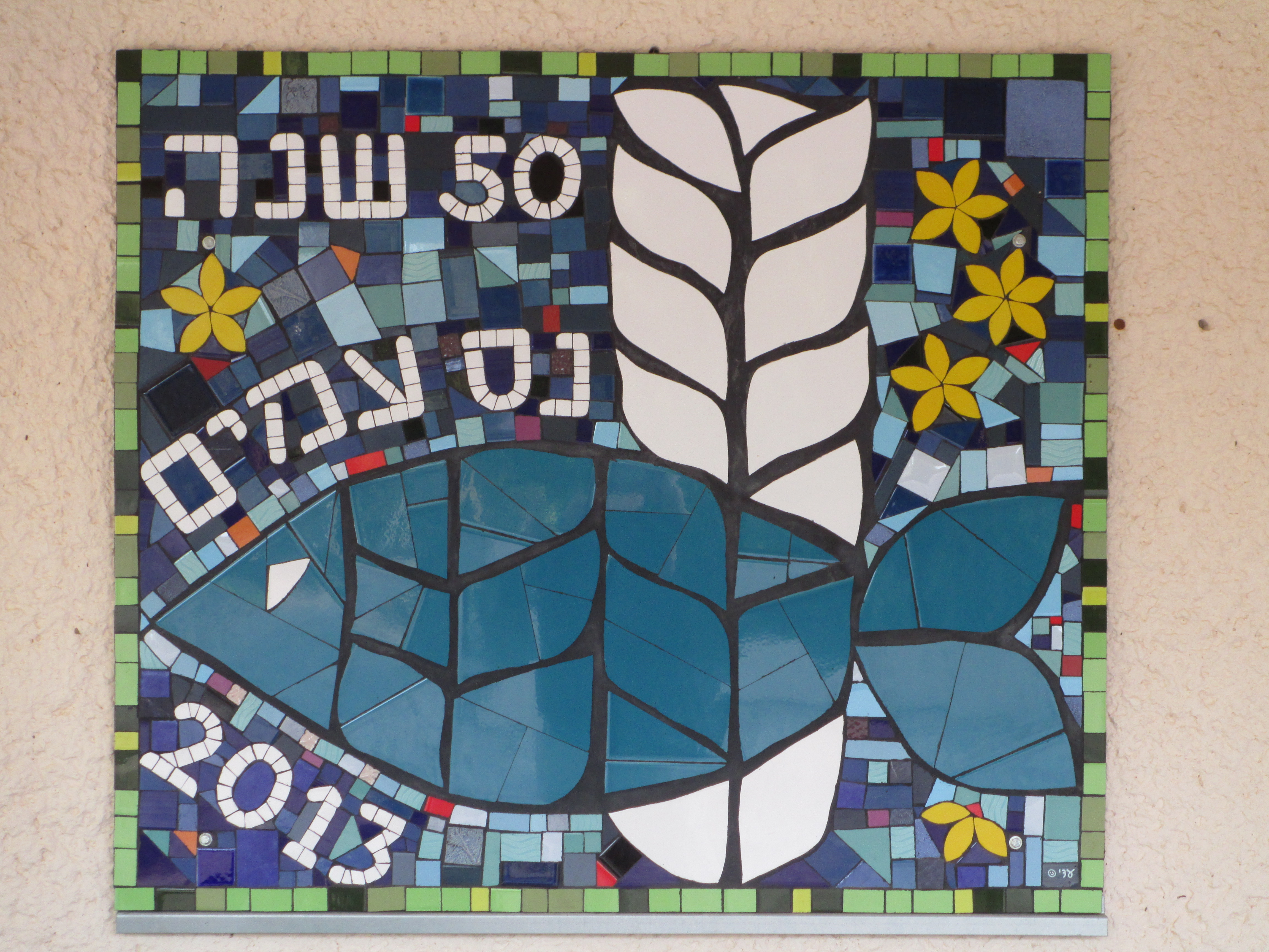 Nes Ammim